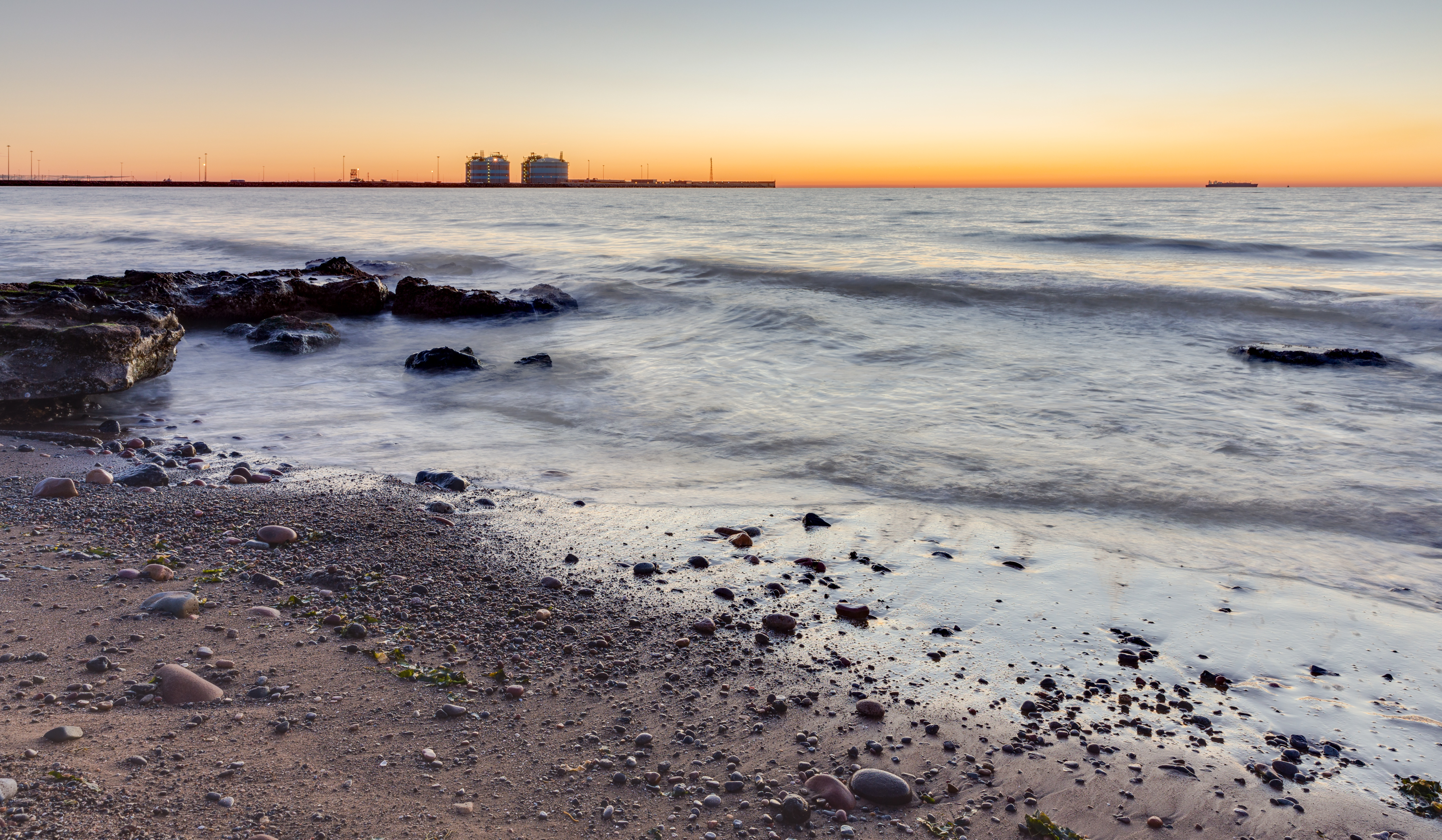 Grau Vell, SCI Marjal del Moro, Valencia, Spain